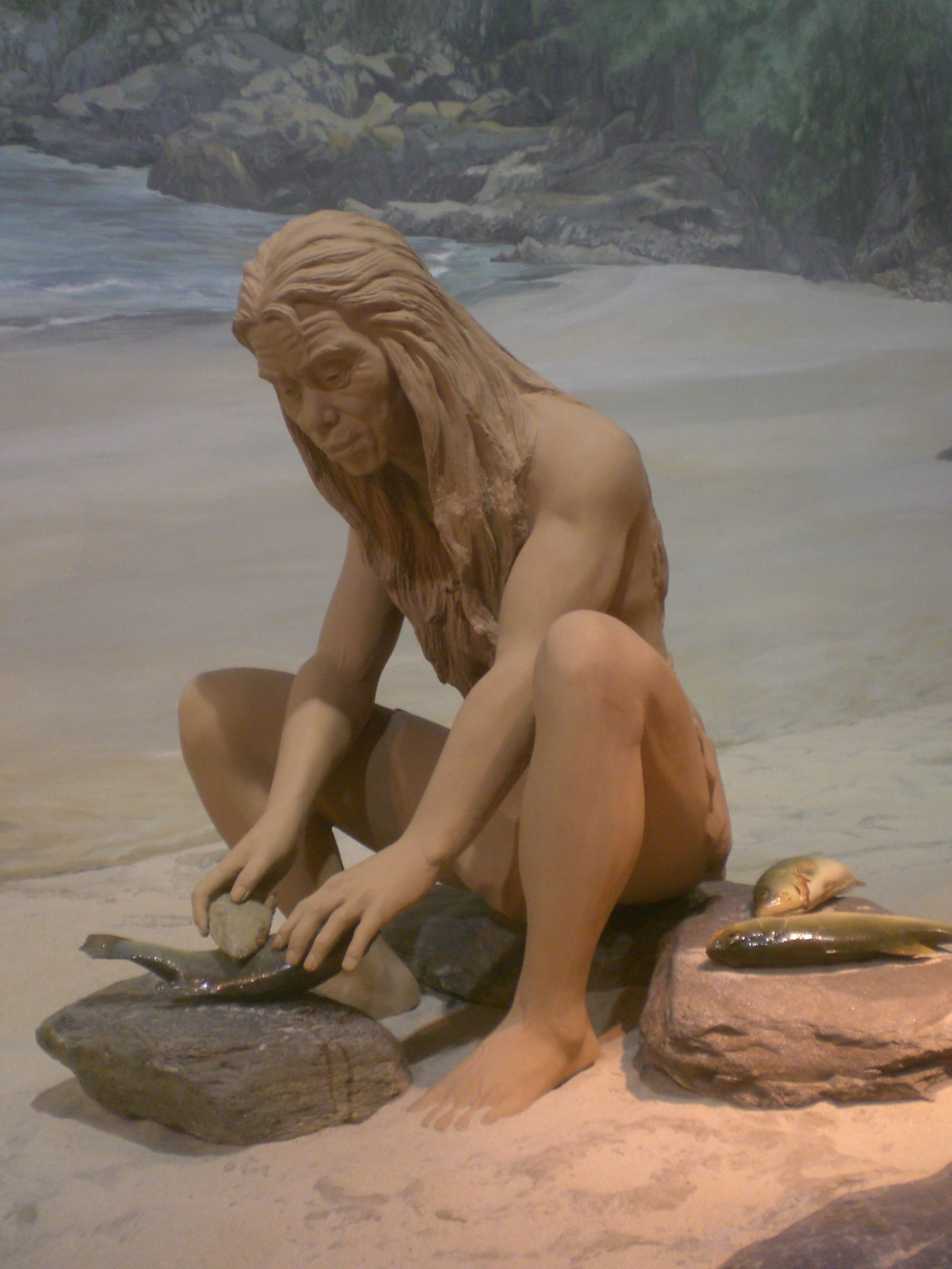 尖沙咀香港歷史博物館史前時期的香港